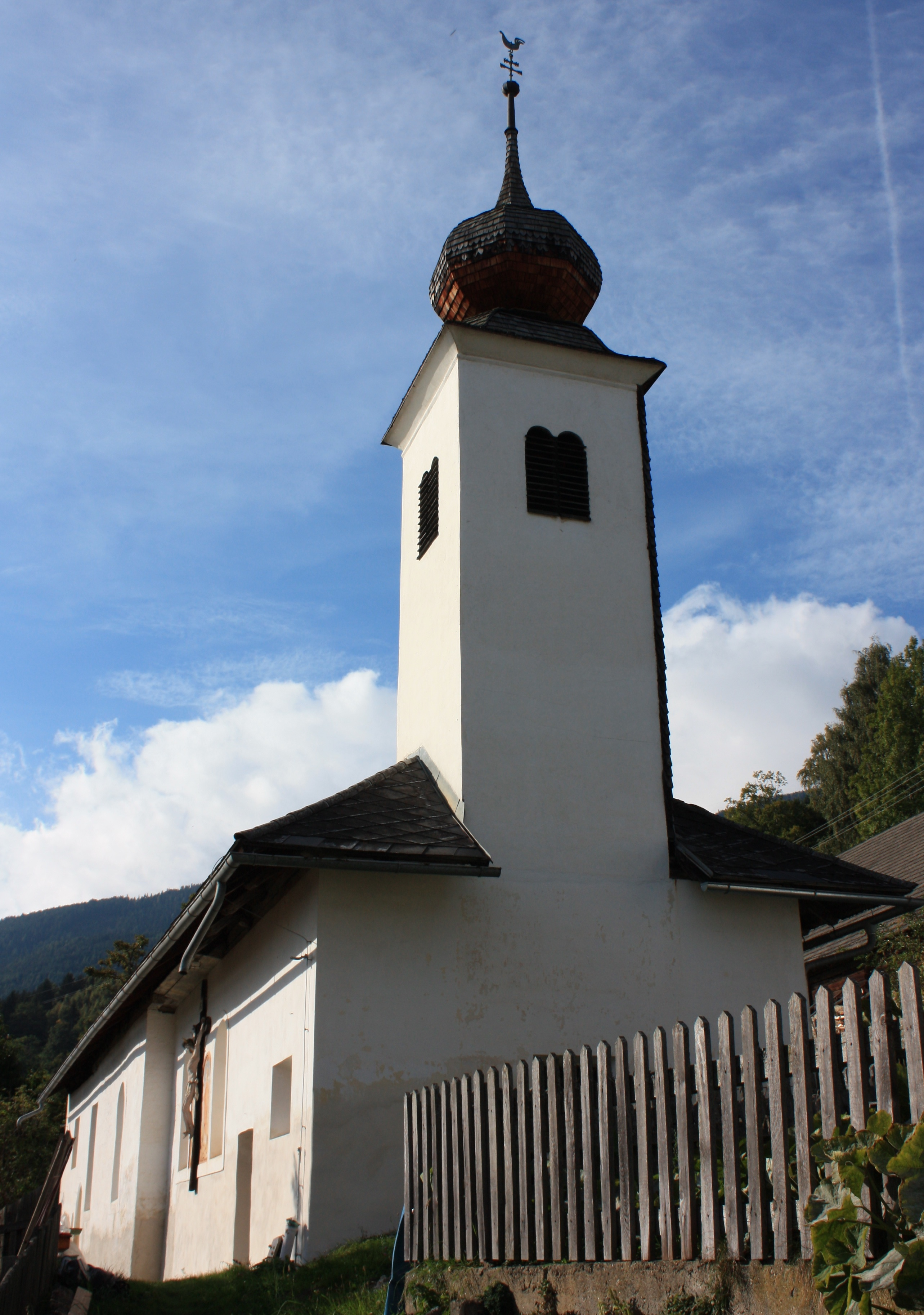 Parish church Saint Lucia Locality:Altersberg Community:Trebesing